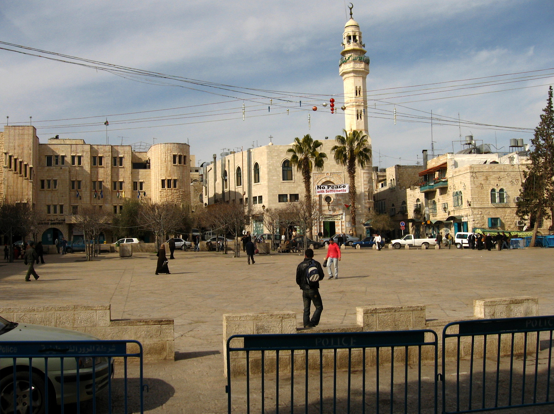 Manger Square and the Mosque of Omar in Bethlehem, West Bank.